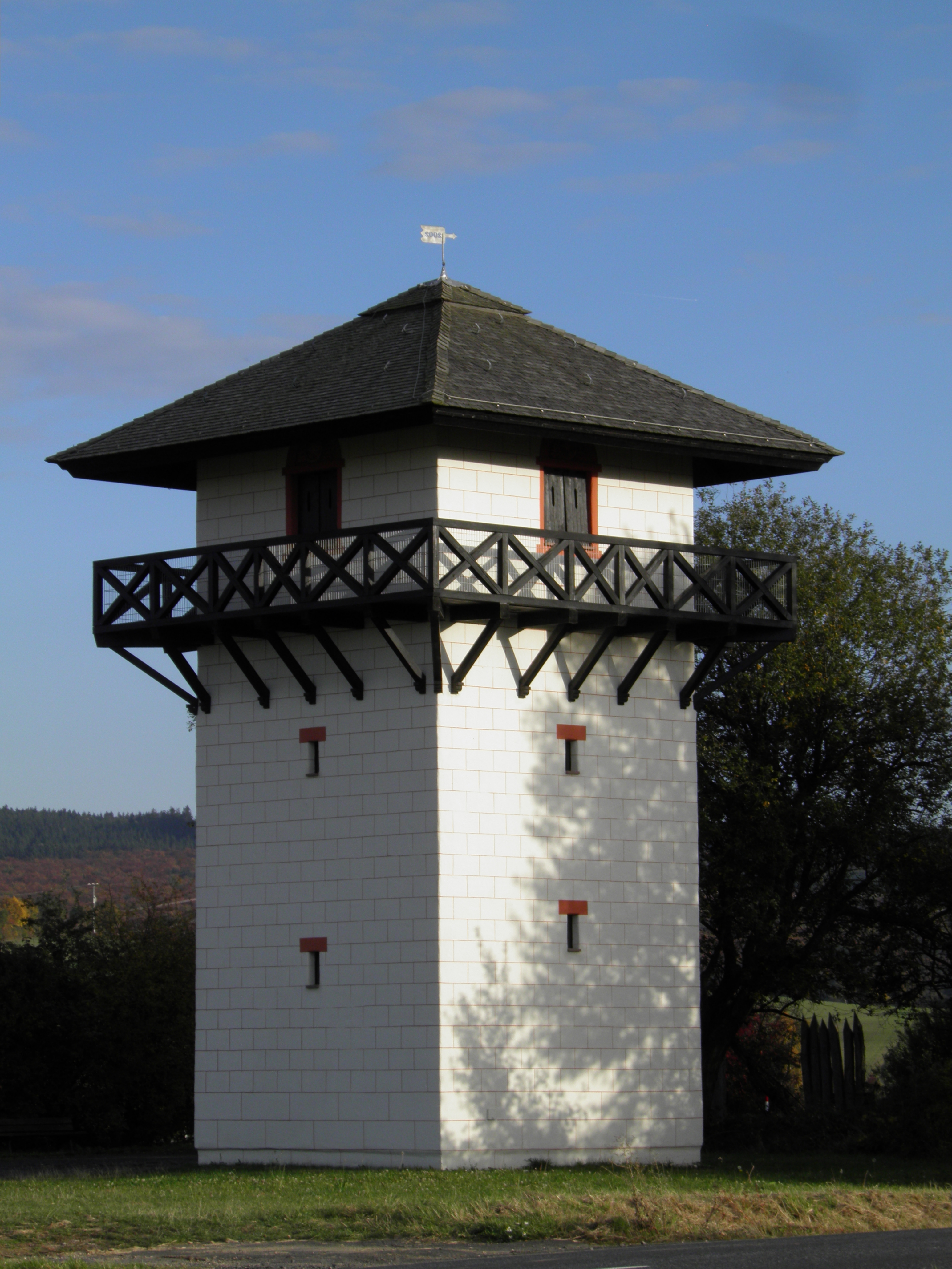 Limes WP 3/26, The reconstructed watchtower of Idstein Dasbach, one of the most original replicas of the Limes, built in 2002